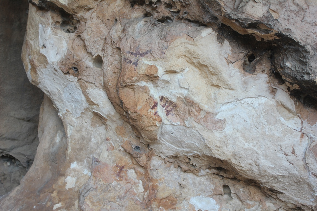 Abrigo de Lecina Superior: Pectiniforme